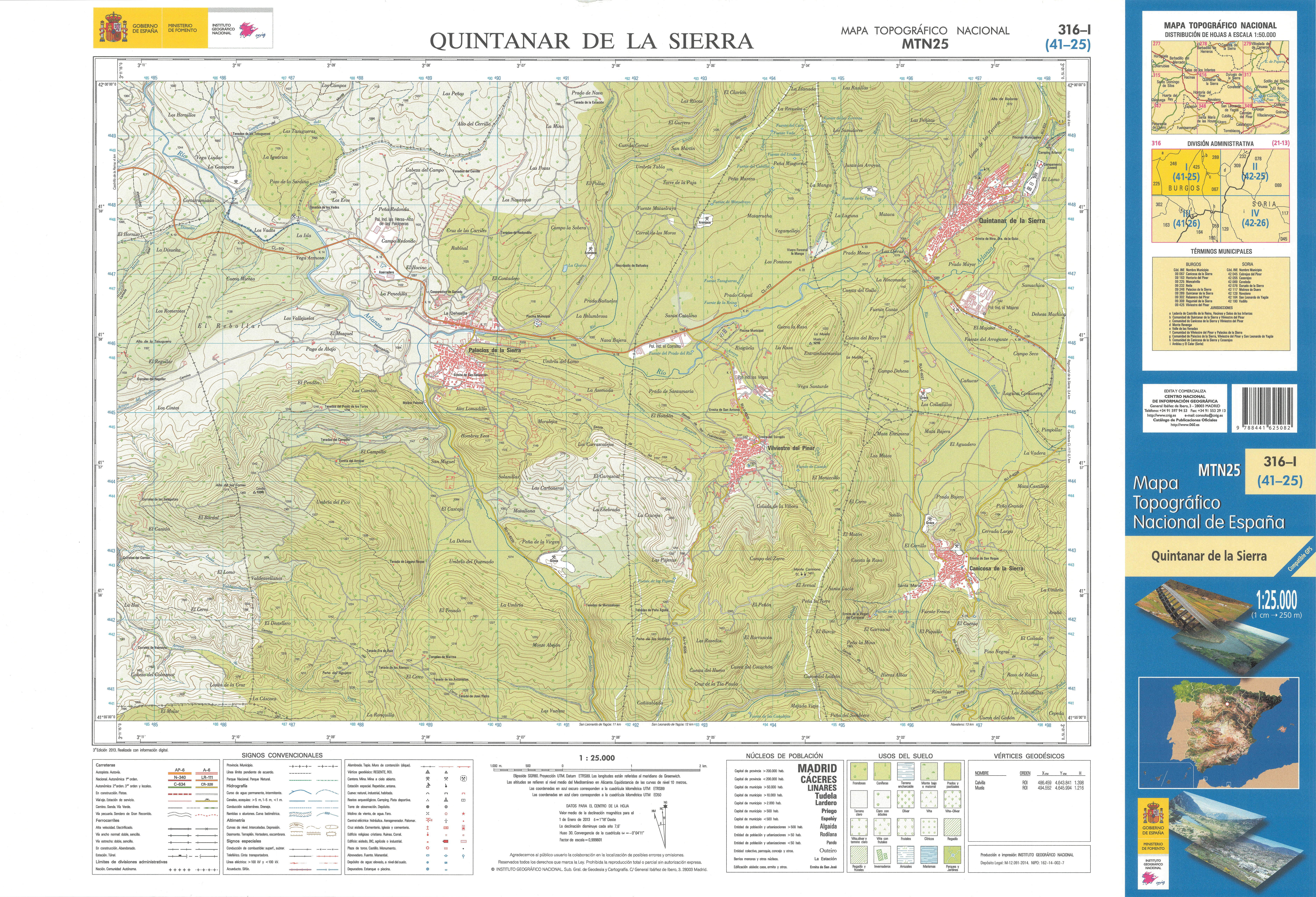 Fragment 0316c1 of the National Topographic Map of Spain in 2013 at a scale of 1:25000 printed and scanned with a resolution of 250 ppi. It shows Quintanar de la Sierra.